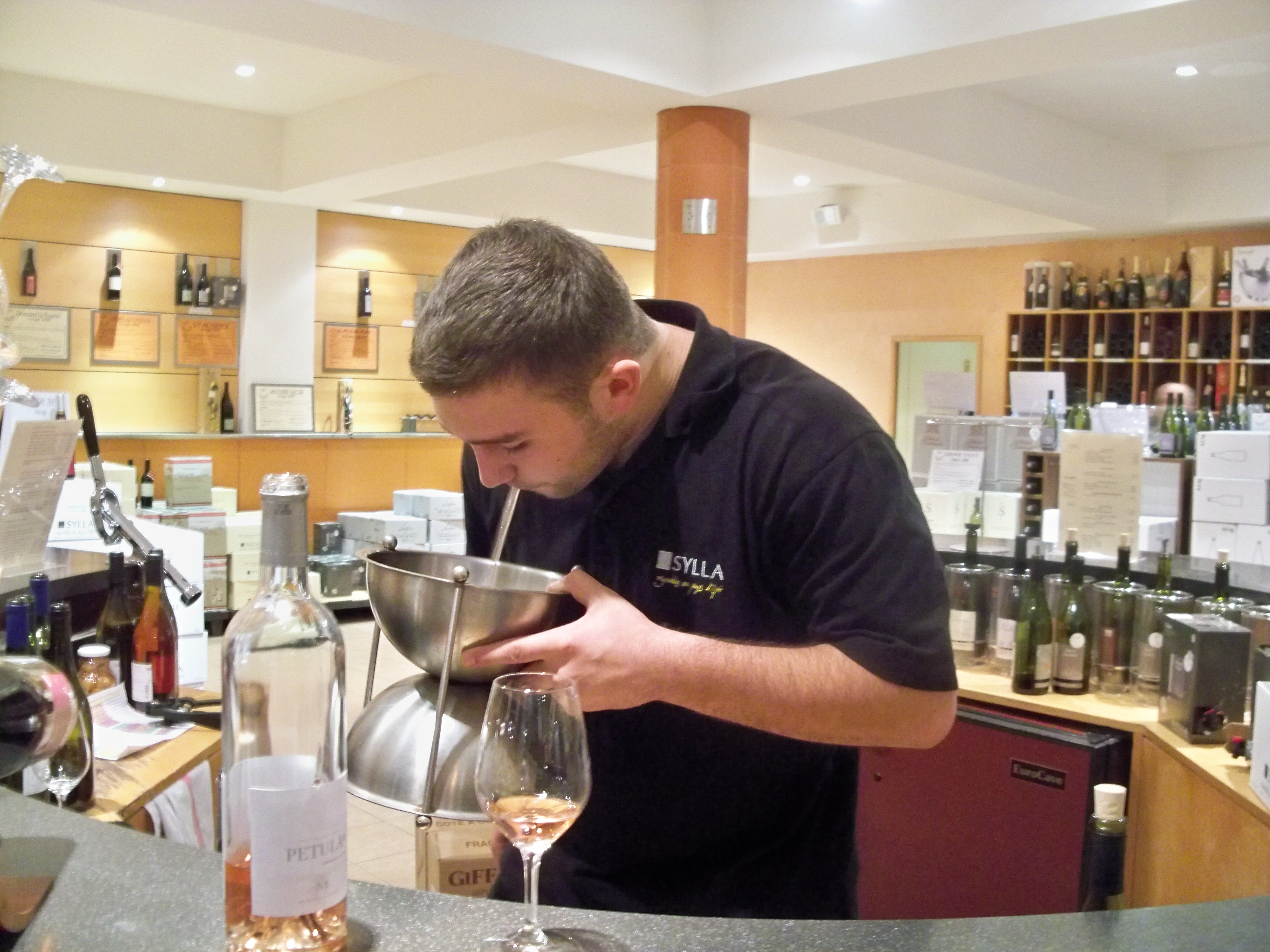 Using spittoon at a wine tasting